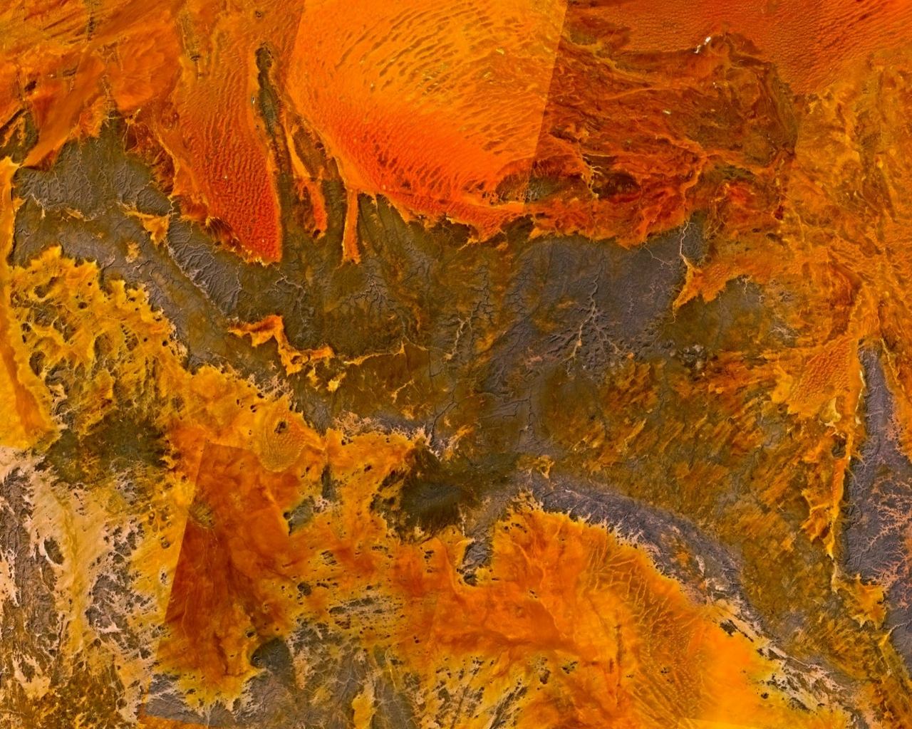 Tassili n'Ajjer massif in the Sahara, Algeria.